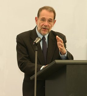 Javier Solana at press conference